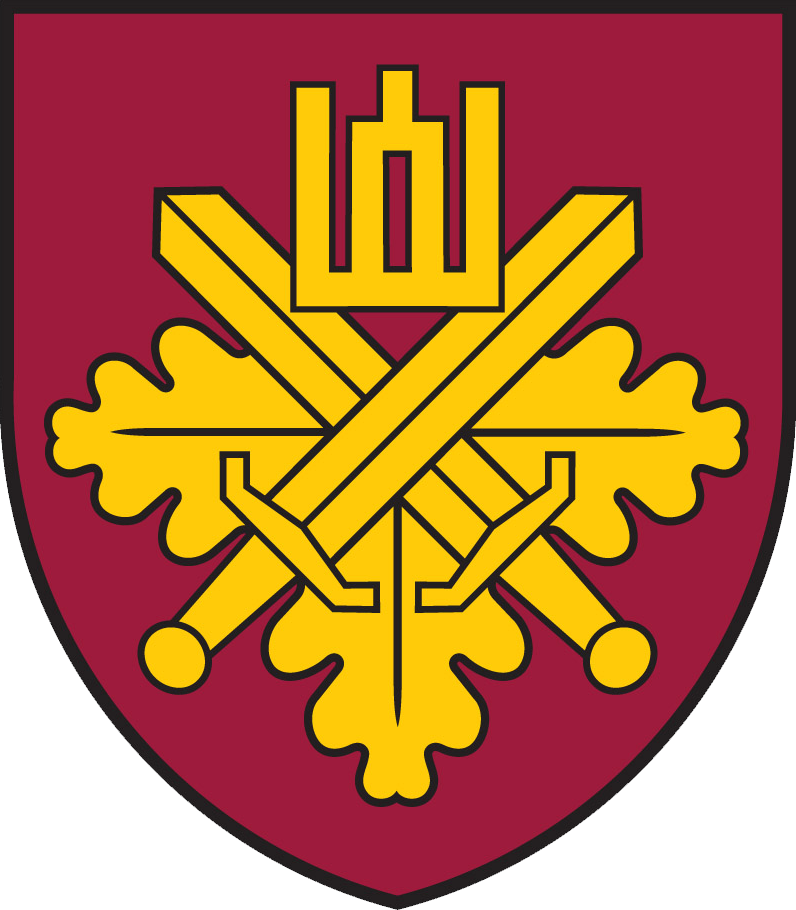 Insignia of the National Defence Volunteer Forces (Lithuania)